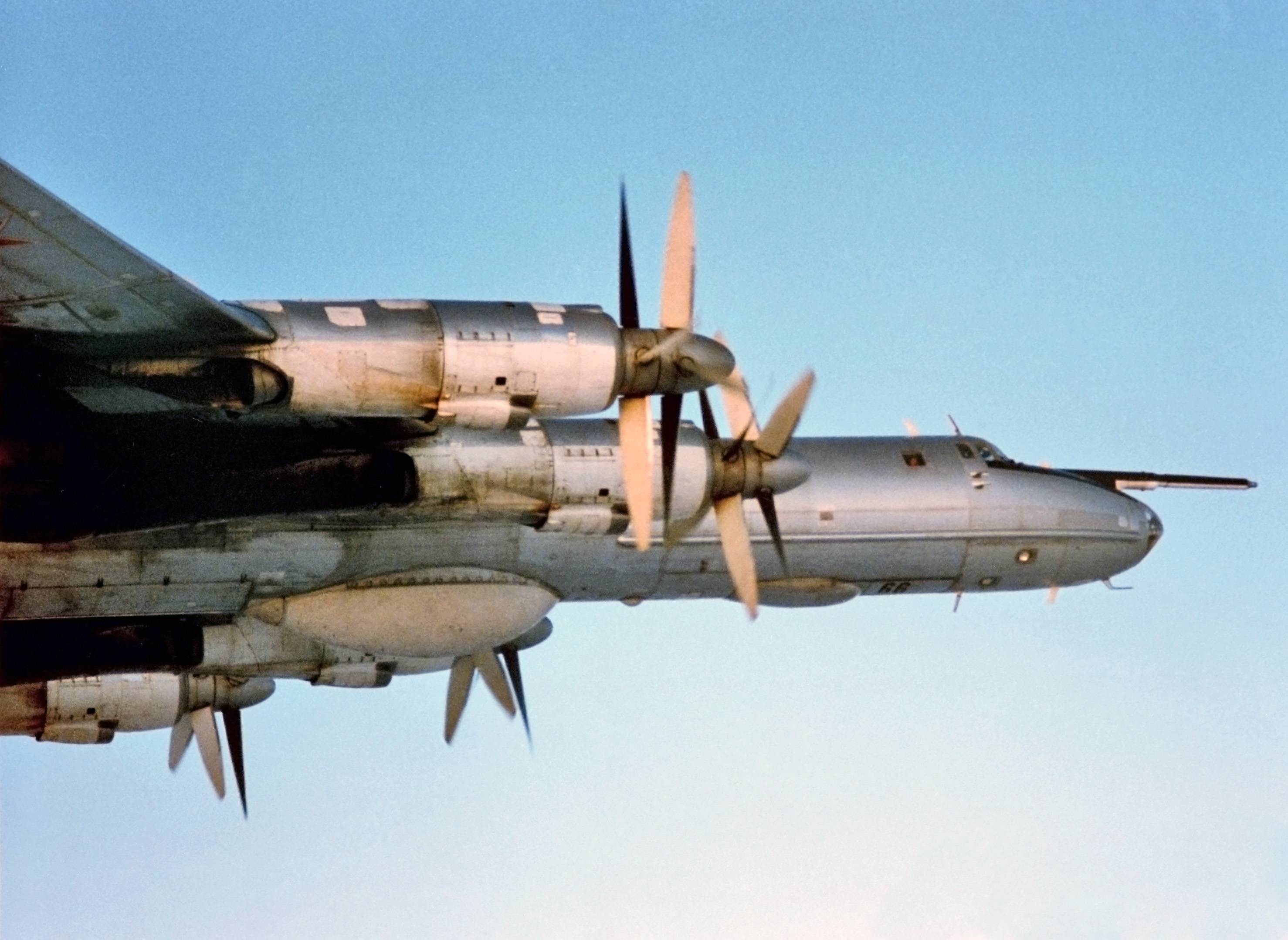 An air to air left side view of the front section of a Soviet Tu-142M (by NATO reporting name - "Bear F Mod 3") aircraft.